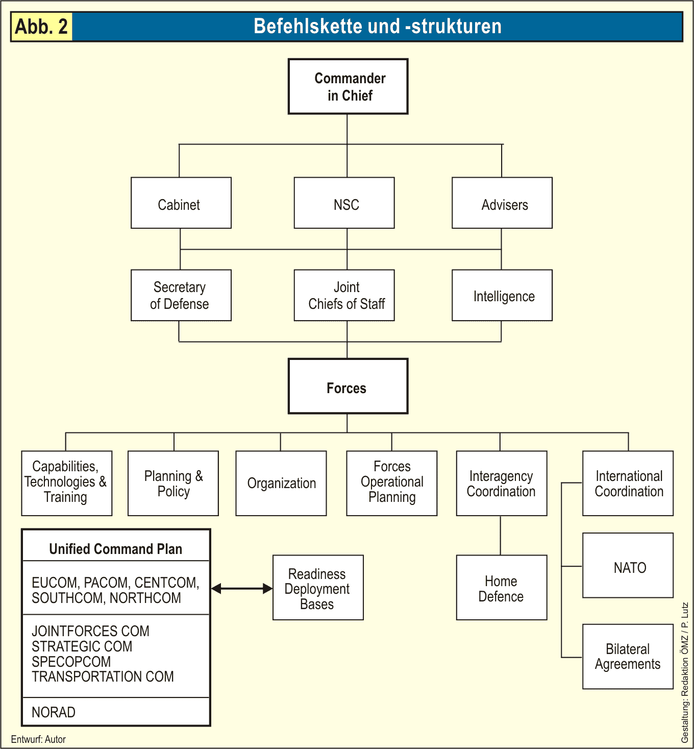 Detailed Chain of Command of the United States including political and non-military security institutions